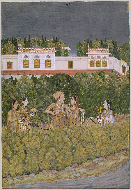 Prince and Ladies in a Garden, mid-18th century; Mughal Attributed to Nidha Mal Lucknow, India Watercolor and gold on paper 10 5/8 x 7 3/8 in. (27 x 18.7 cm) Purchase, Cynthia Hazen Polsky and Leon B. Polsky Fund, 2001 (2001.302) Not on view Last Updated October 10, 2011 The scene of leisure portrayed here typifies the gracious style of later Mughal painting practiced at provincial centers such as Lucknow in the eighteenth century. In this composition, a prince and his consort smoke a huqqa, attended by ladies in the pleasant surroundings of a walled palace garden. Nidha Mal was a talented artist of the Delhi-based court of the Mughal emperor Muhammad Shah (r. 1719–48) who later moved to Lucknow, where he continued to paint in the refined and naturalistic Delhi style.